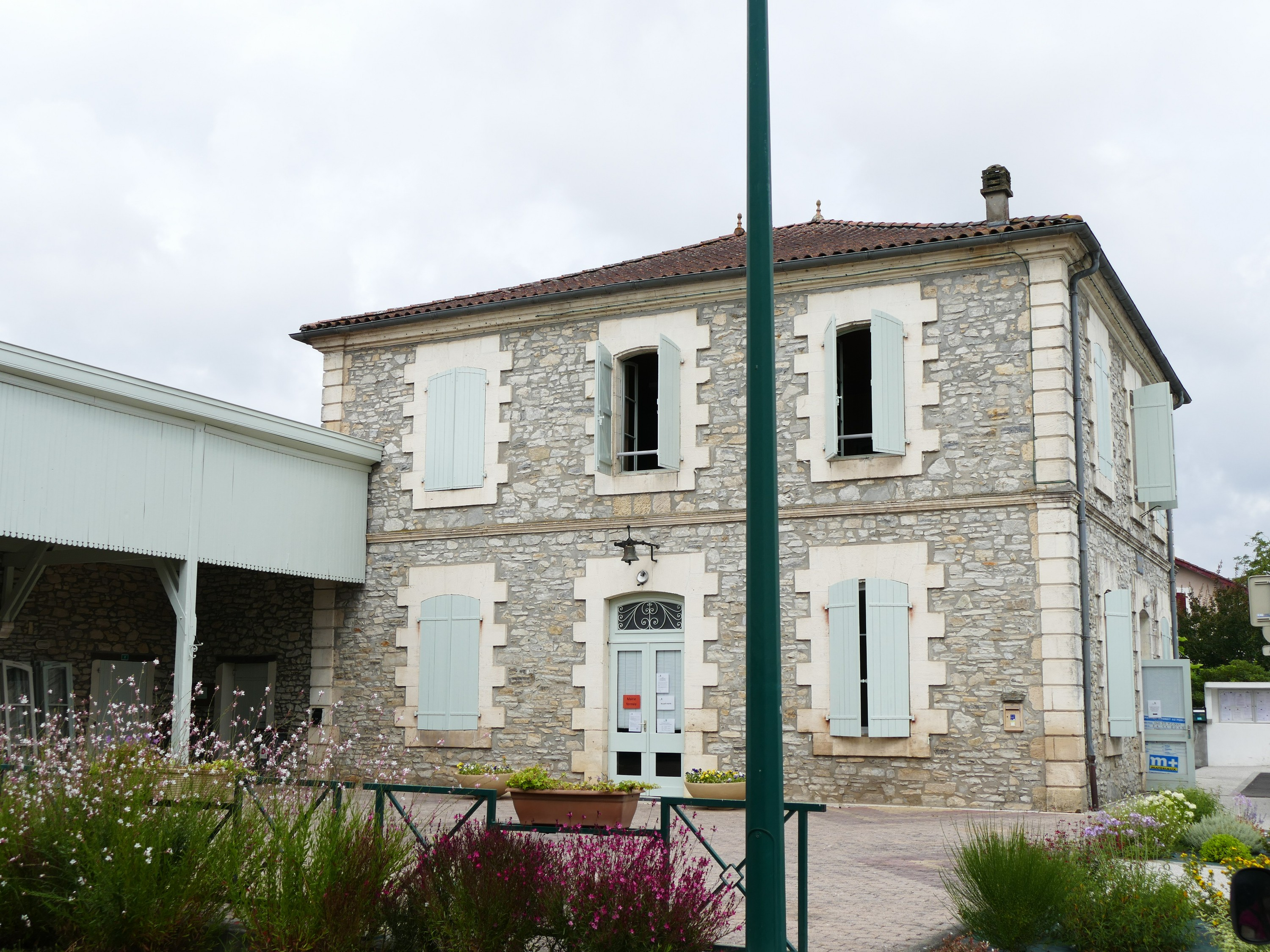 The city hall in Téthieu (Landes, Aquitaine, France).